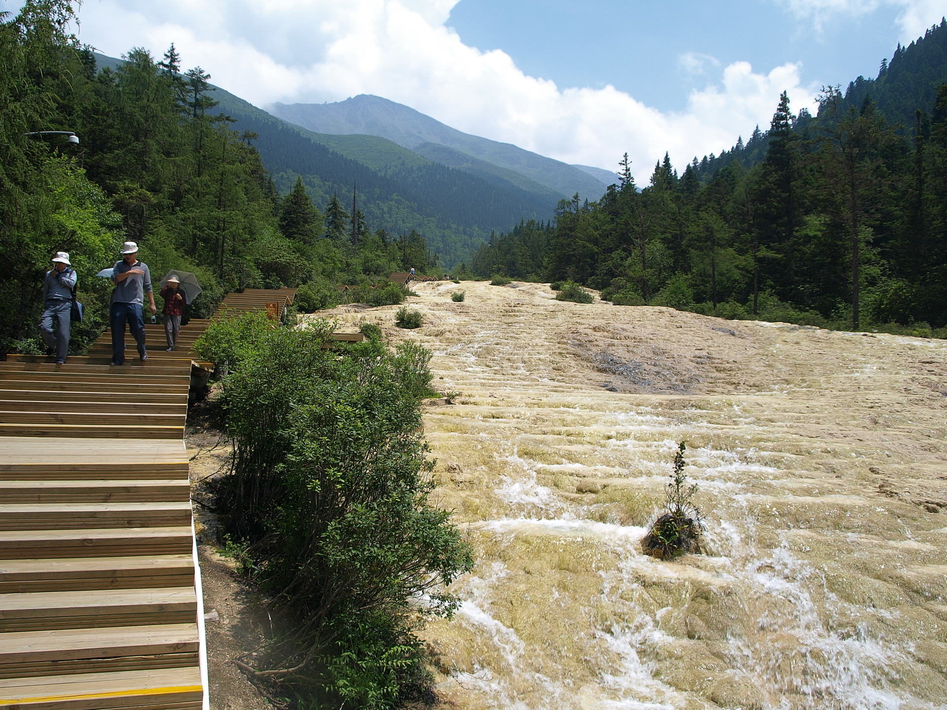 Golden-Sand-Field, Huanglong, Sichuan, China.